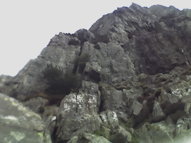 (Photographed Myself): Flying Buttress, a popular "VDiff" Climbing Route on Glyder Fach